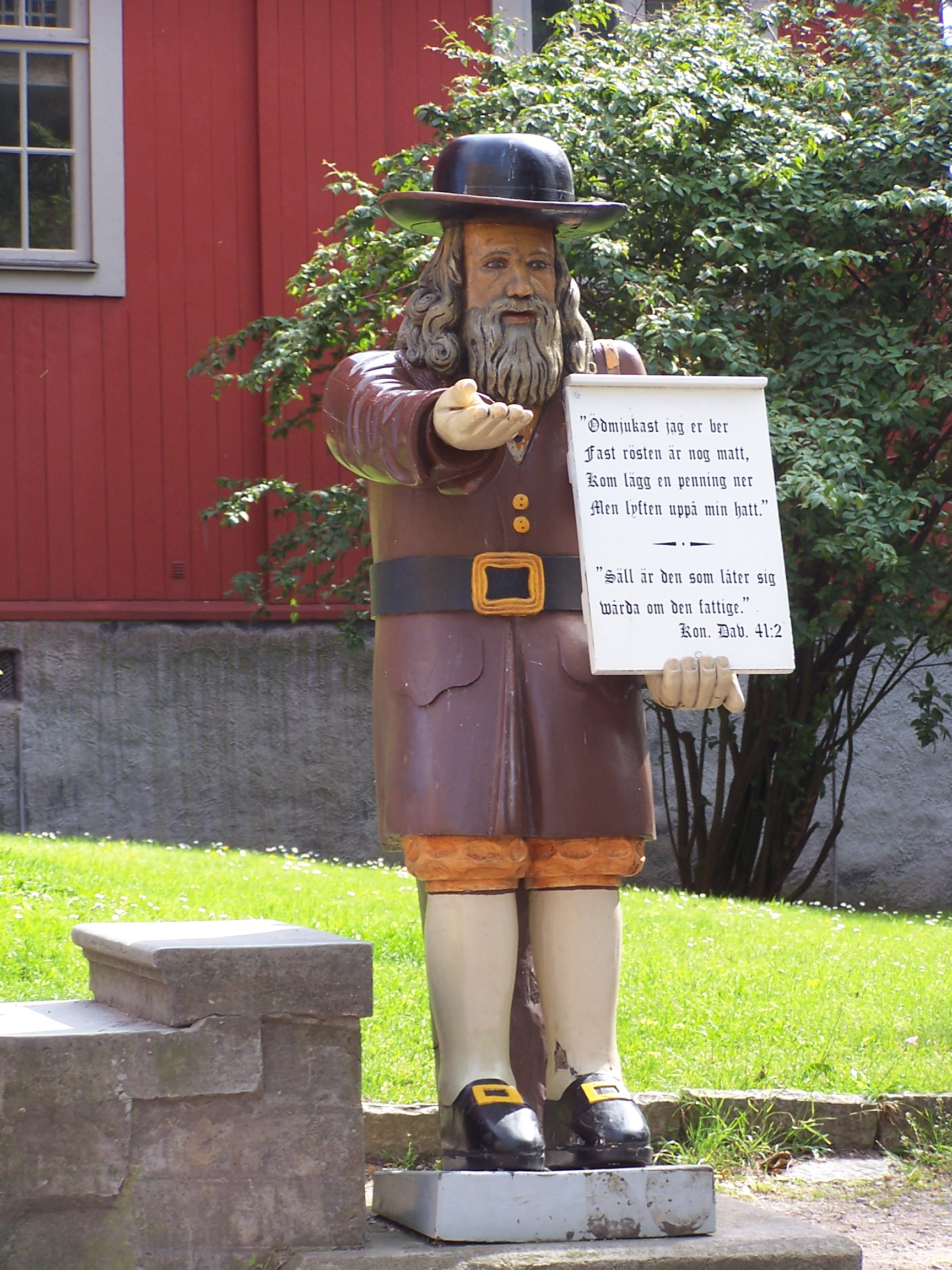 The poor-box Rosenbom in Karlskrona outside Amiralitetskyrkan, Karlskrona.